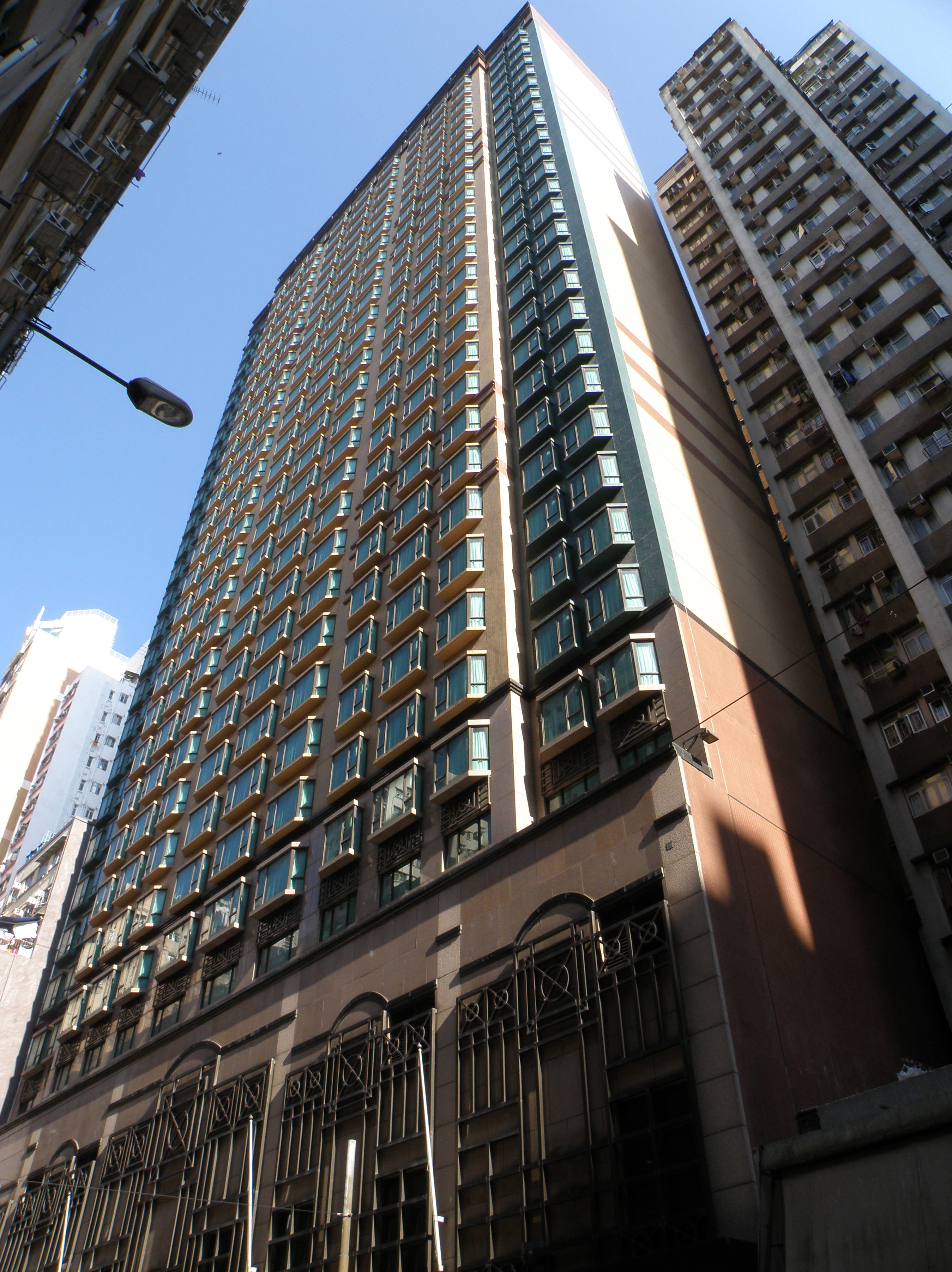 Newton Inn in North Point, Hong Kong.